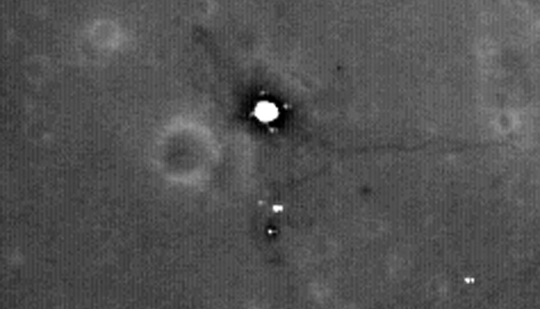 Picture taken by Lunar Reconnaissance Orbiter Camera (LROC) of Apollo 11 after LRO dropped into its 50 km mapping orbit. At this altitude, very small details of Tranquility Base can be discerned. The footpads of the LM are clearly discernible. Components of the Early Apollo Science Experiments Package (EASEP) are easily seen, as well. Boulders from West Crater lying on the surface to the east stand out, and the many small craters that cover the moon are visible to the southeast. The LROC can take high resolution black-and-white images of the lunar surface, capturing images of the poles with resolutions down to 1 m (3.3 feet).